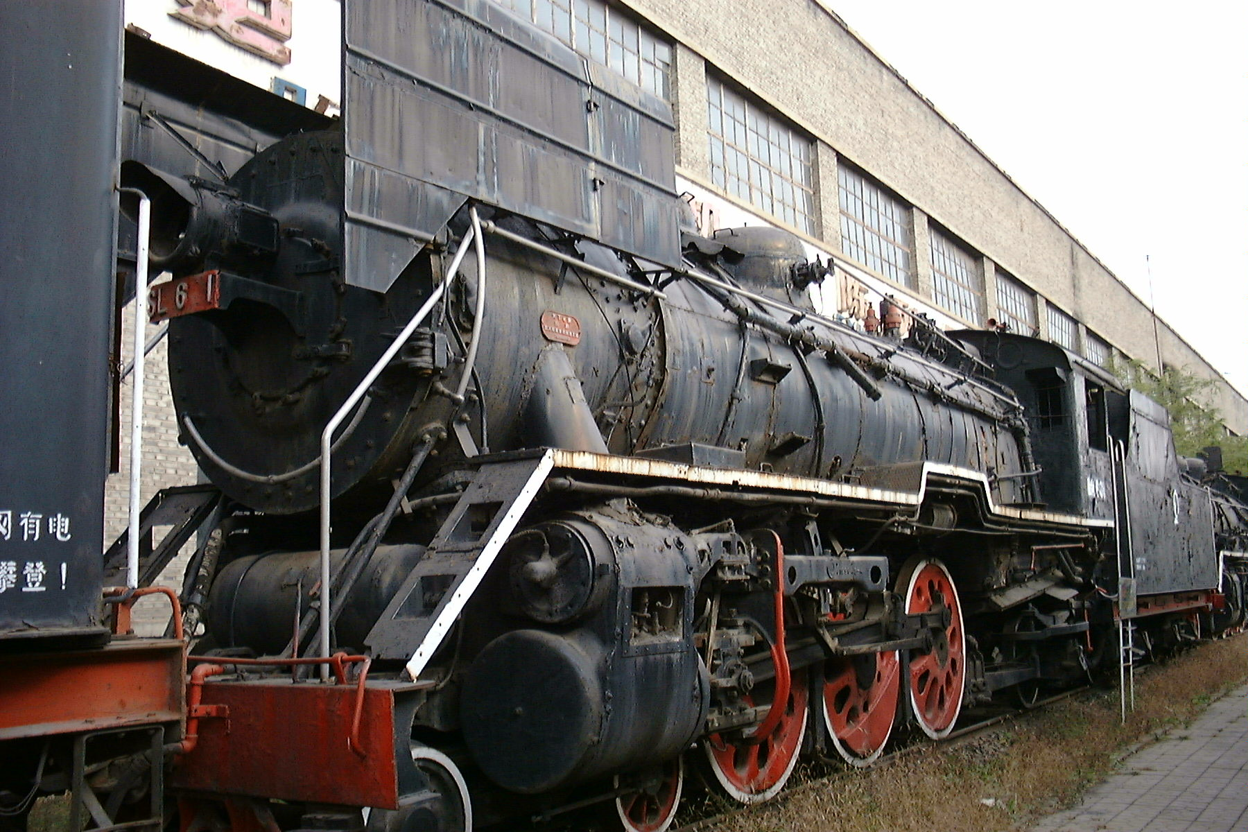 Datong railway museum, Shanxi, China